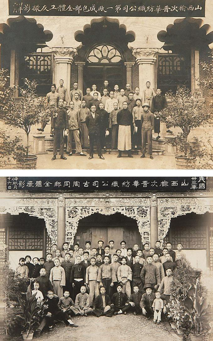 Workers, Chin Hua Cotton Spinning and Weaving Company, Yuci, Shanxi, China